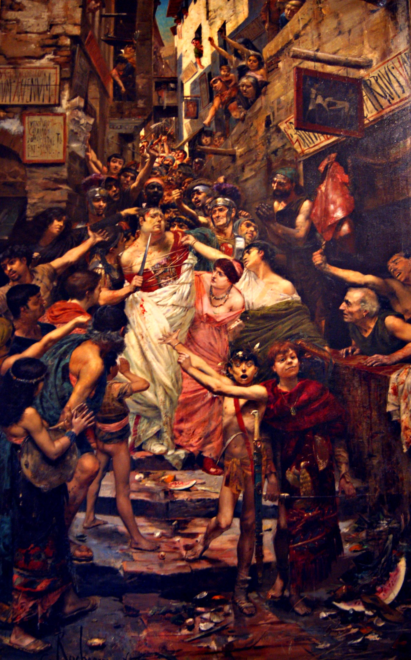 Vitellius traîné dans les rues de Rome par la populace